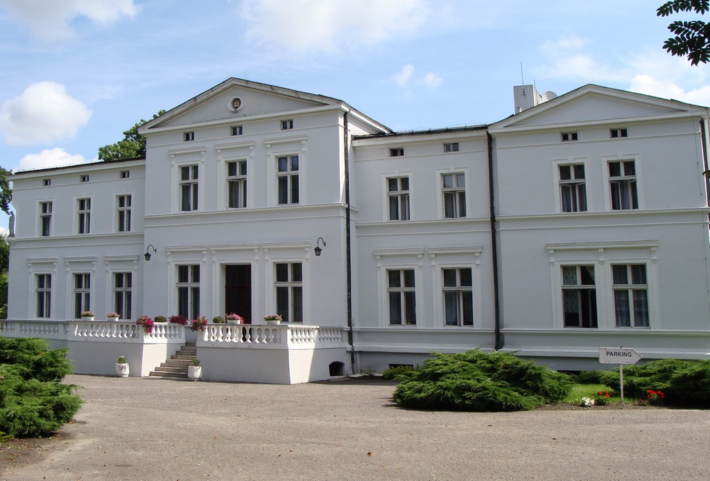 Brodnica, palace.